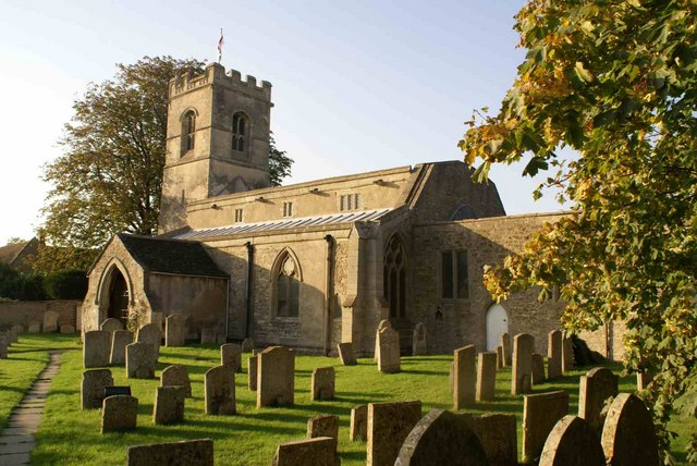 St Mary's parish church, Orton Waterville, Peterborough, seen from the southeast